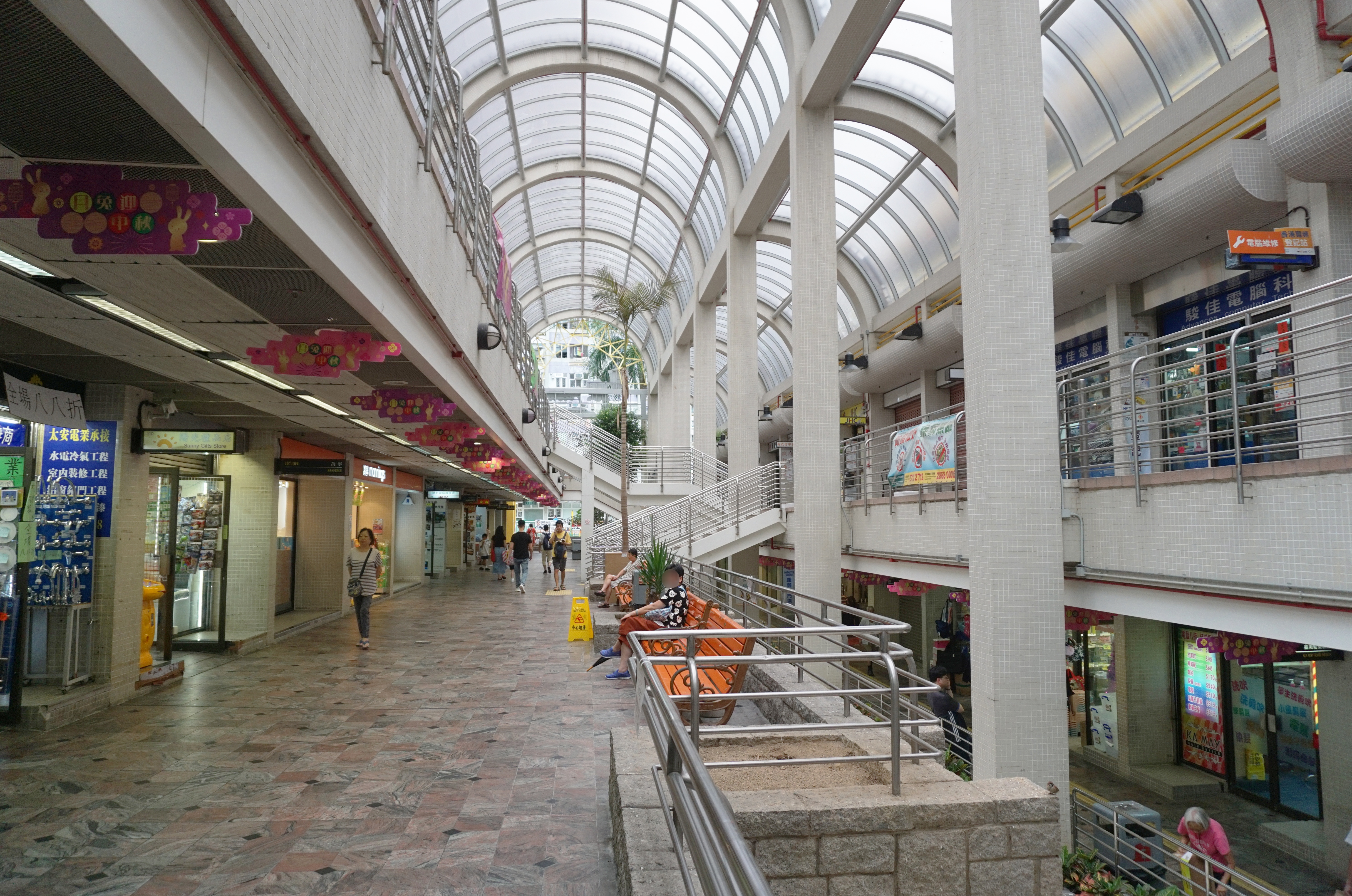 Pok Hong Estate Commercial Centre in Sha Tin Wai, Hong Kong.